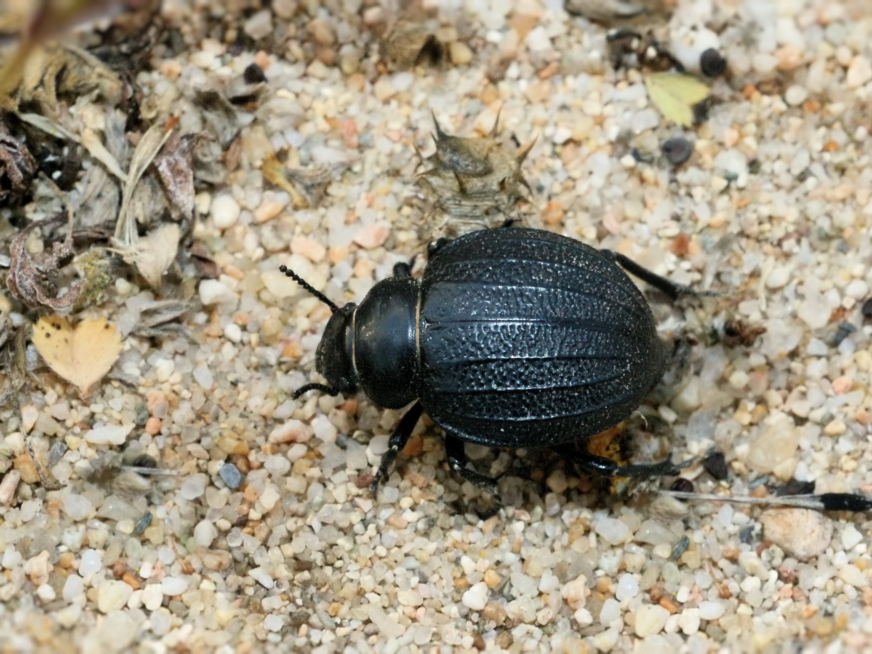 A Darkling beetle, close to Torregrande, Sardinia, Italy